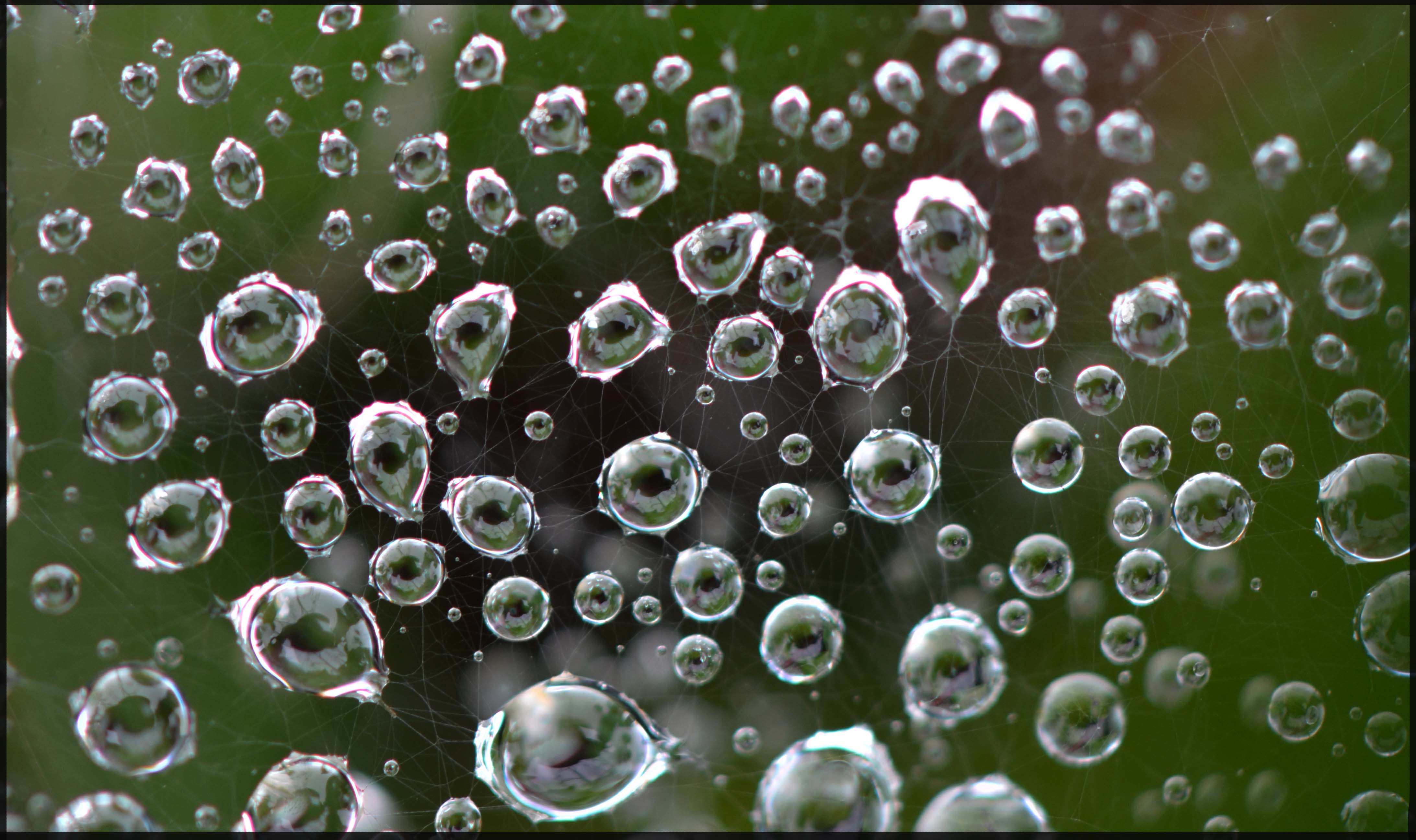 Accumulation of rain drops (mist) on a spider web, close to the ground at the edge cliff-beach in Brittany (Bay of Douarnenez), after a few hours of light rain